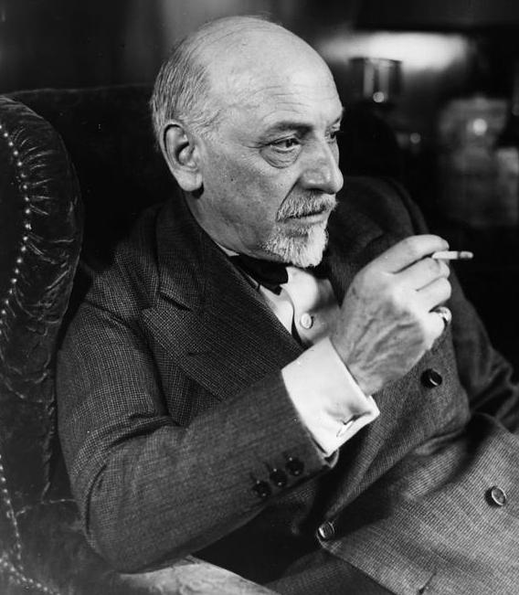 Luigi Pirandello, 1934